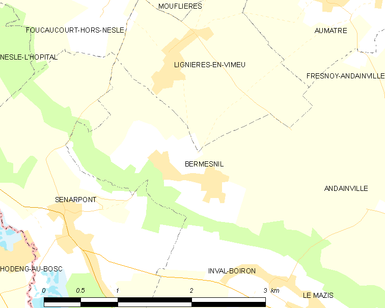 Map of French municipality Bermesnil